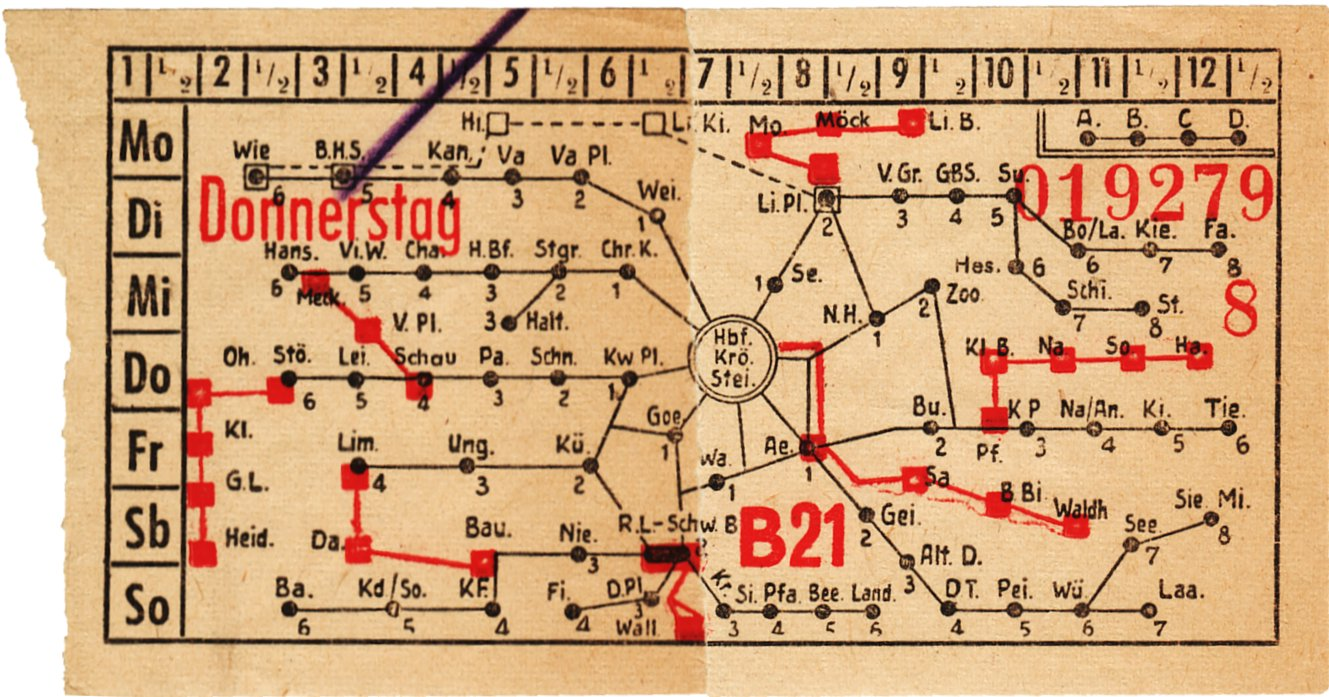 Tramway ticket (about 1950) from Hanover, Germany. The circle in the middle shows the train main station, Kröpcke and Steintor. The other abbreviated stations mostly still exist.